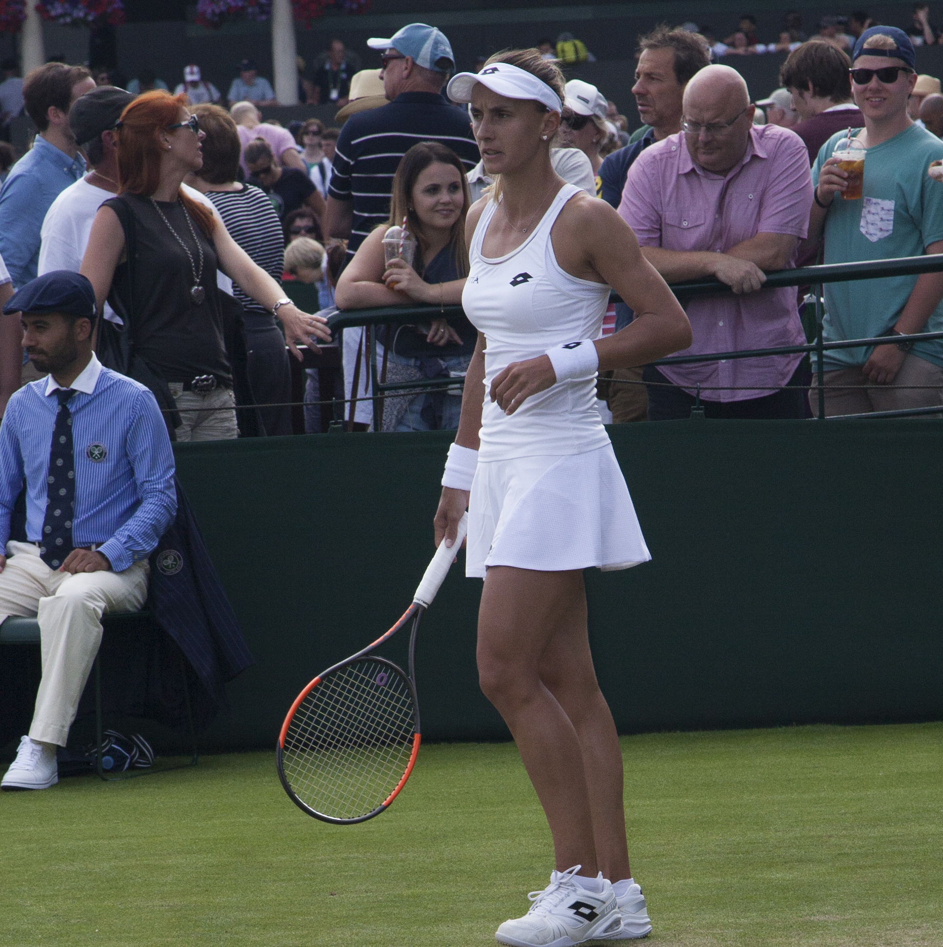 Lesia Tsurenko at Wimbledon